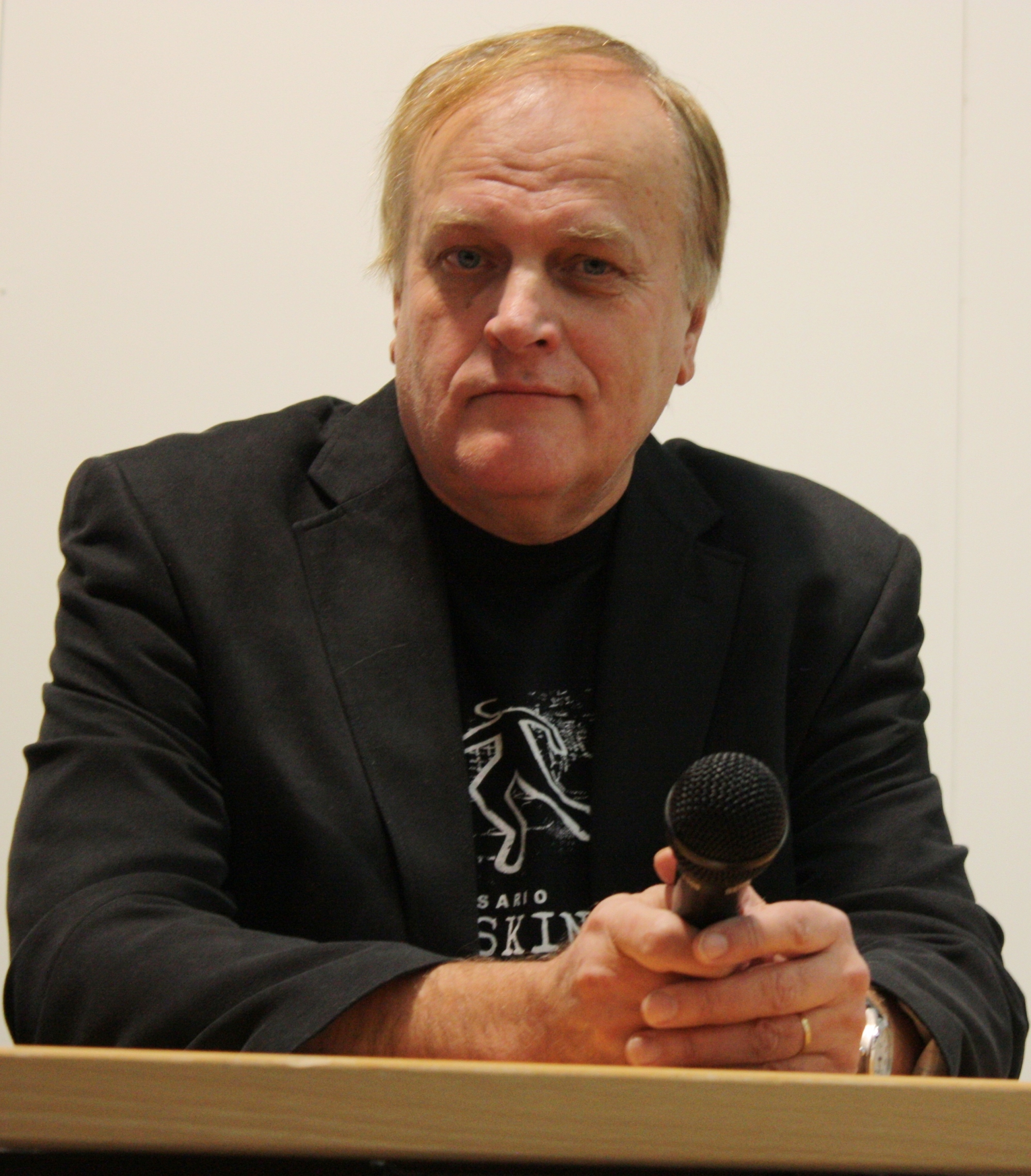 Finnish crime writer Seppo Jokinen at Helsinki Book Fair 2009